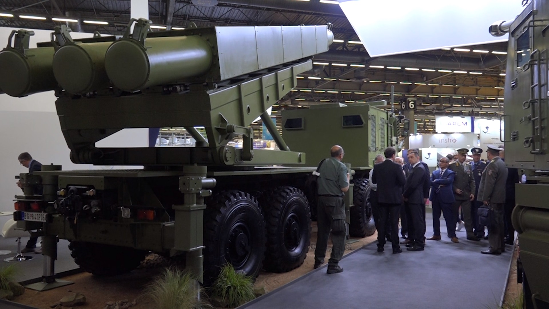 Sumadija MLRS Eurosatory Paris 2018